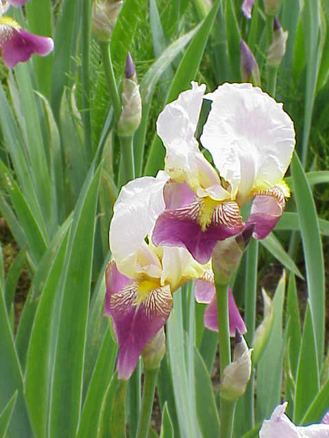 Species: Iris x barbata Family: Iridaceae Image No. 1